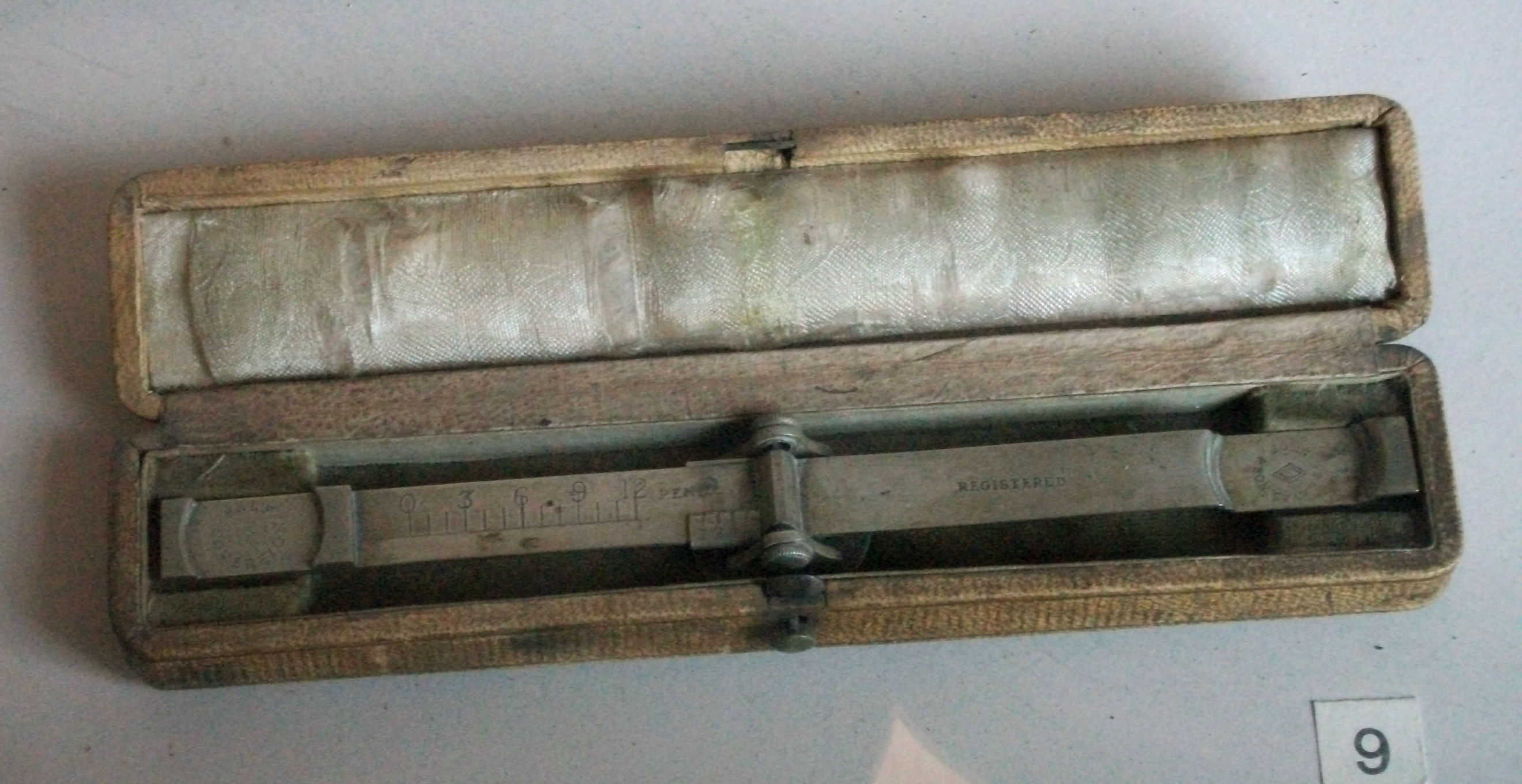 Improved Registered Gold Weigher made by John Greaves and Son. For checking the weight of sovereigns and half sovereigns.